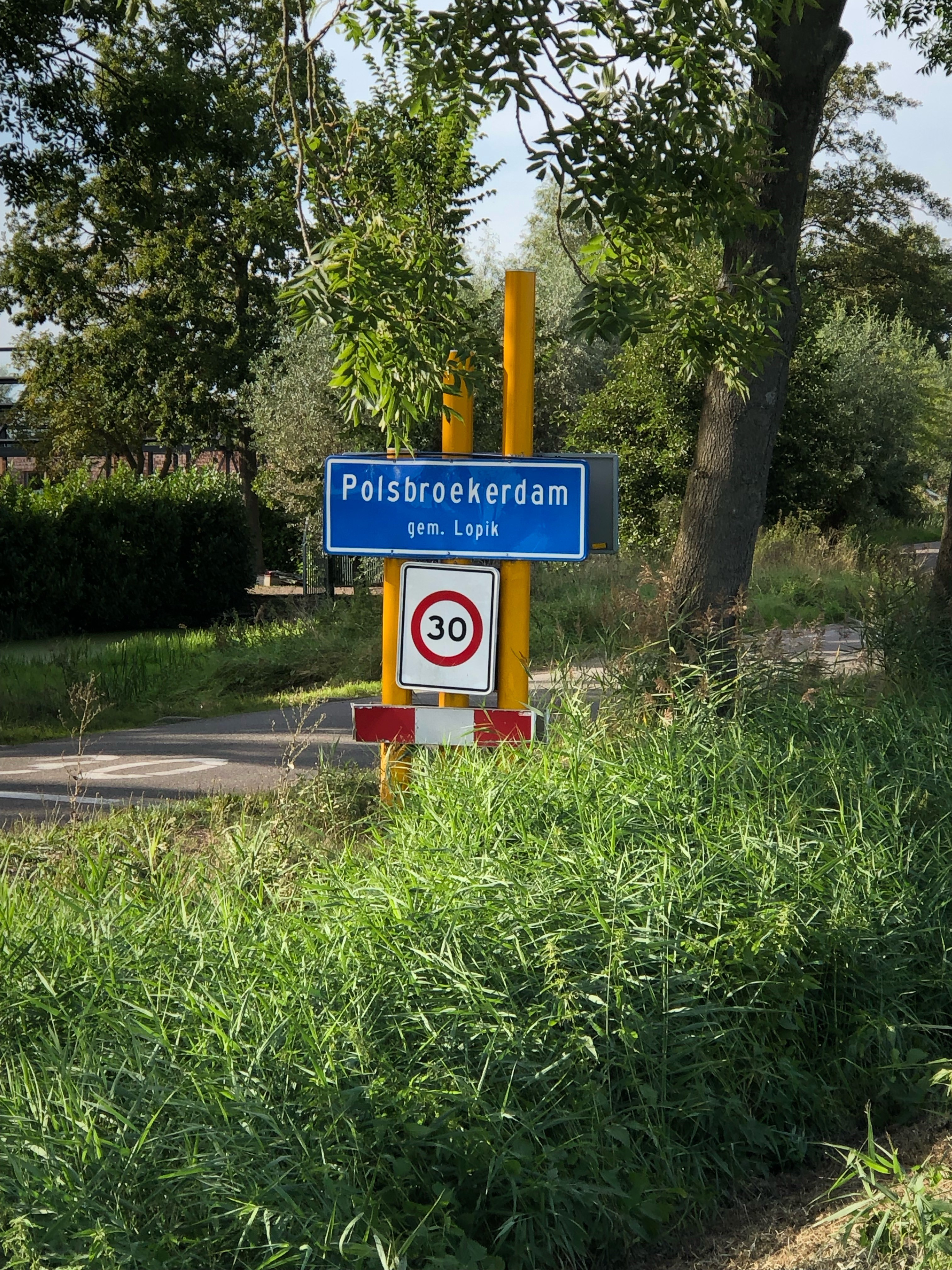 South entrance of Polsbroekerdam hamlet